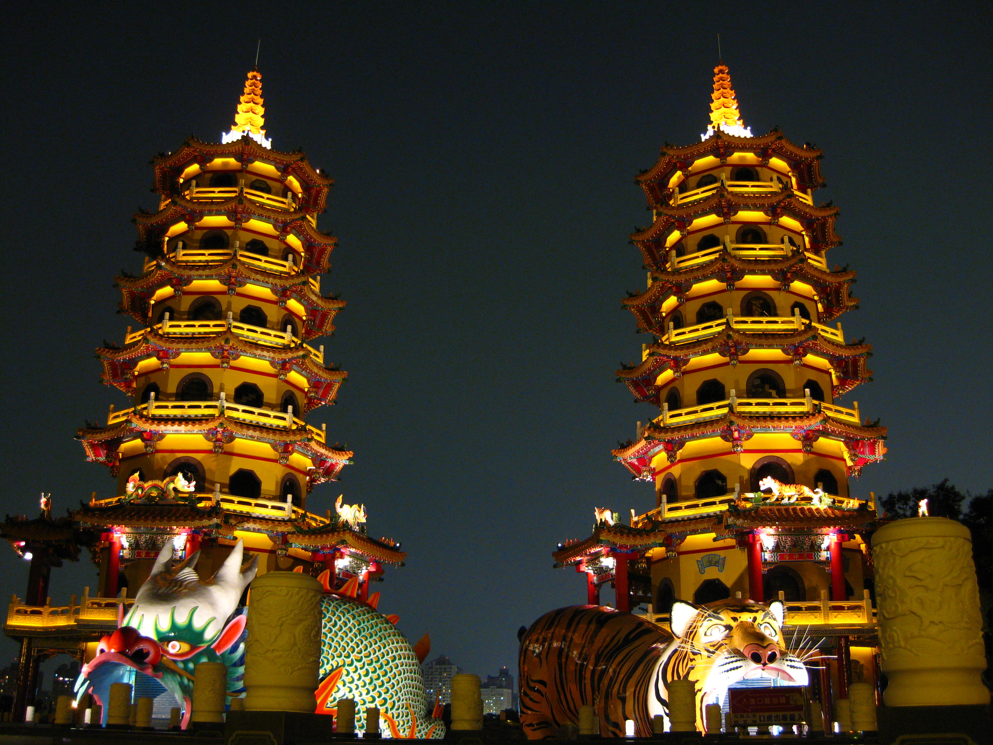 Dragon and Tiger Pagodas at night, Zuoying, Kaohsiung, Taiwan.